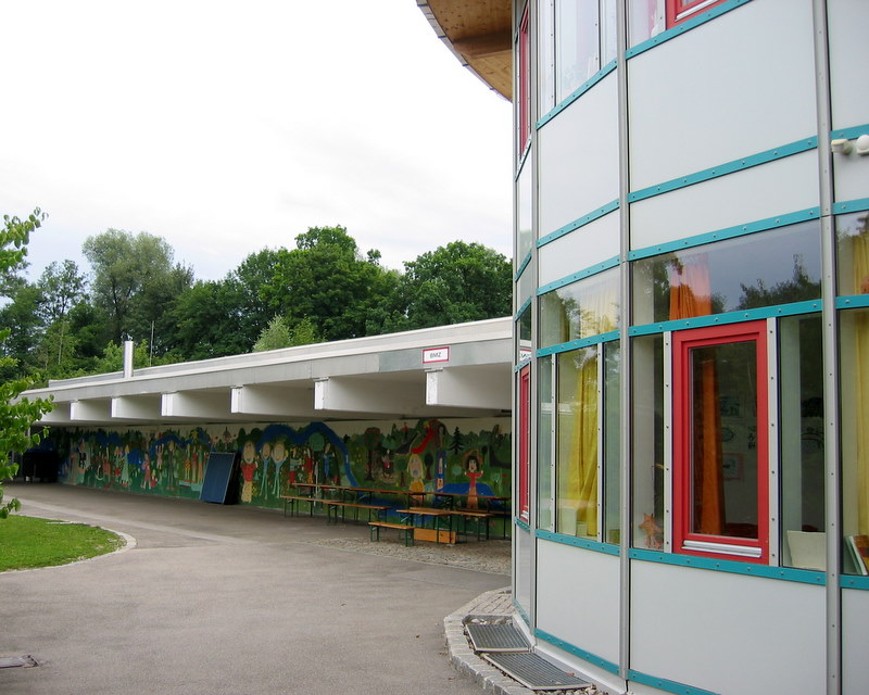 Primary School Stockdorf